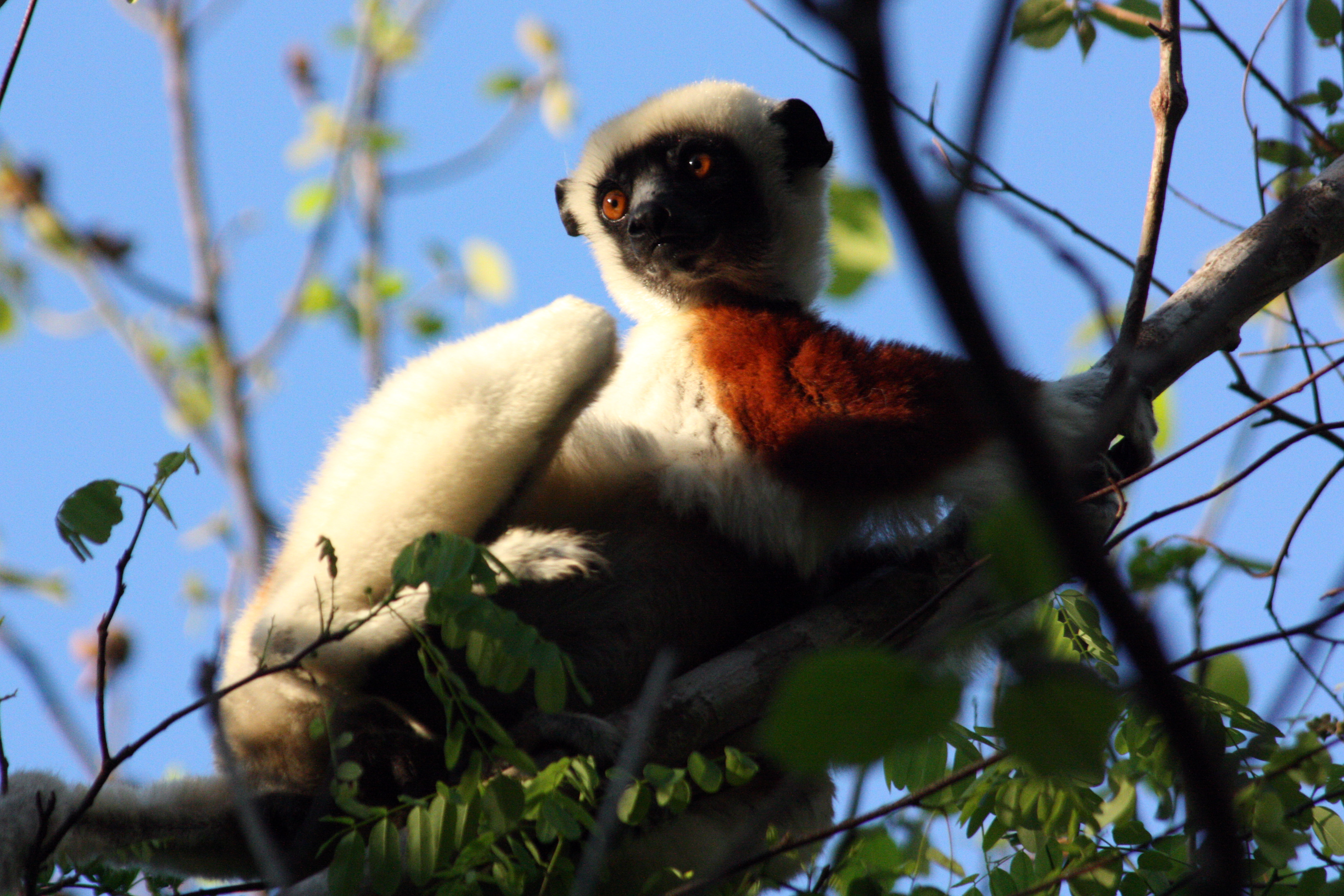 Coquerel's sifaka lemur (propithecus coquereli) in the Anjajavy Forest, Madagascar